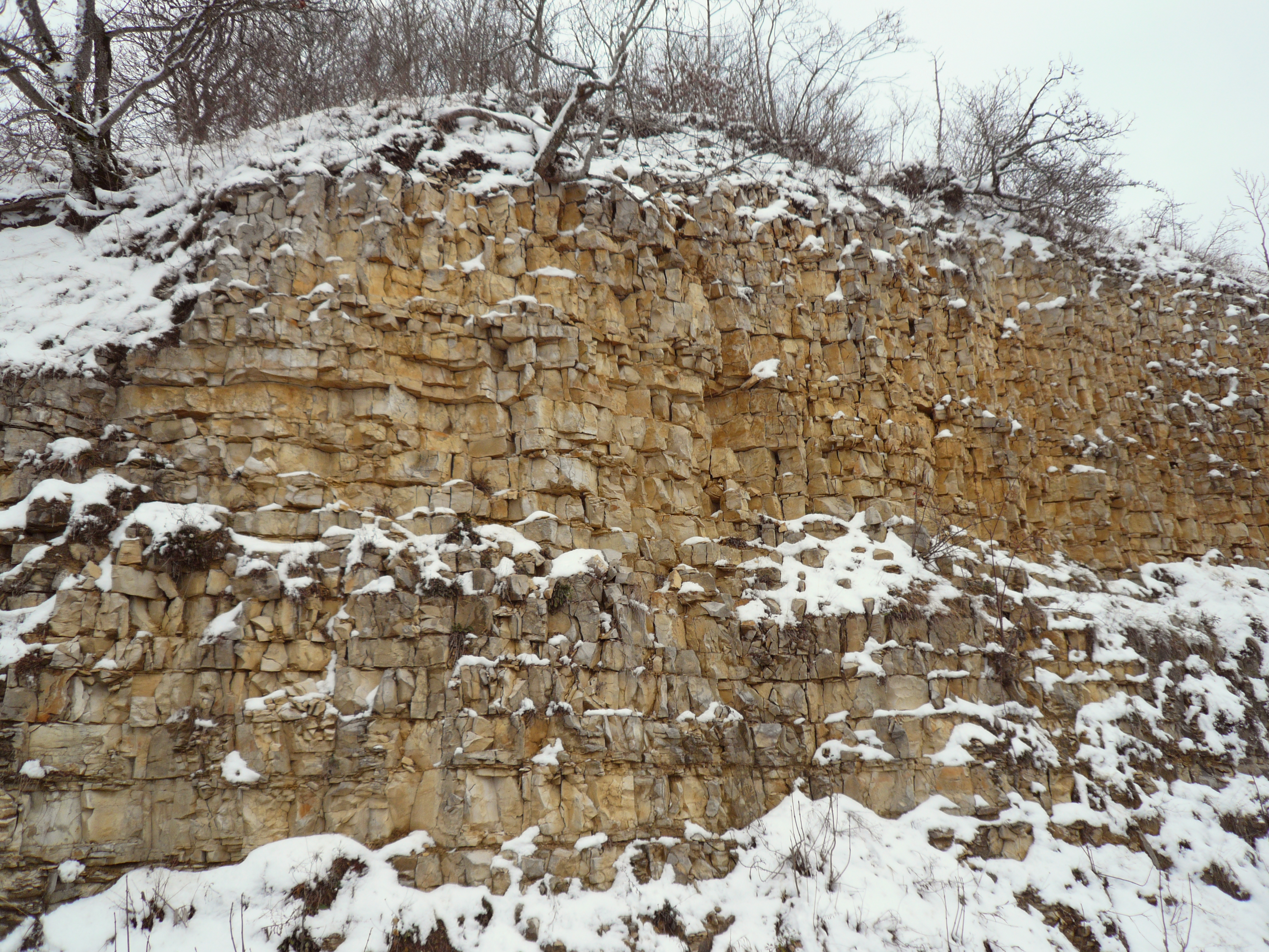 Exposure of limestone on the fringe of the Swabian Alb.